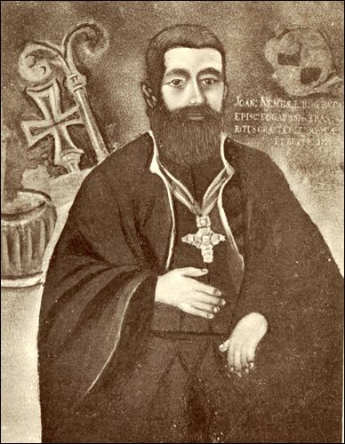 Ioan Giurgiu Patachi, Romanian Greek Catholic Bishop of Fagaras from 1713 to 1727